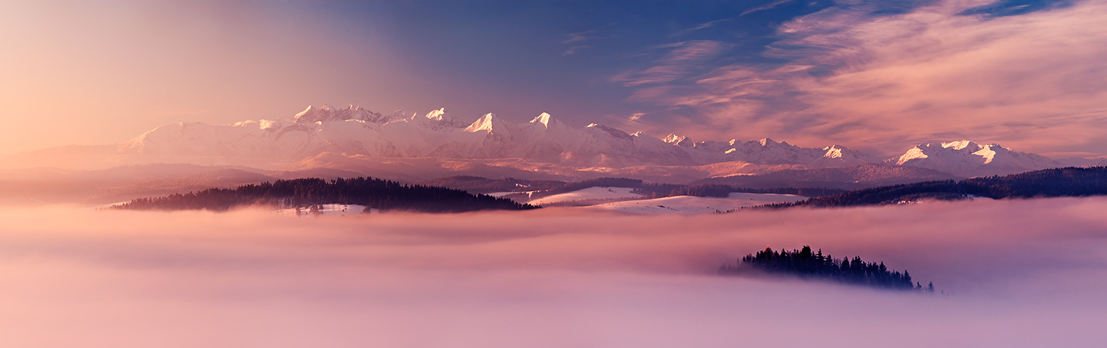 Tatra mountains - Jurgow